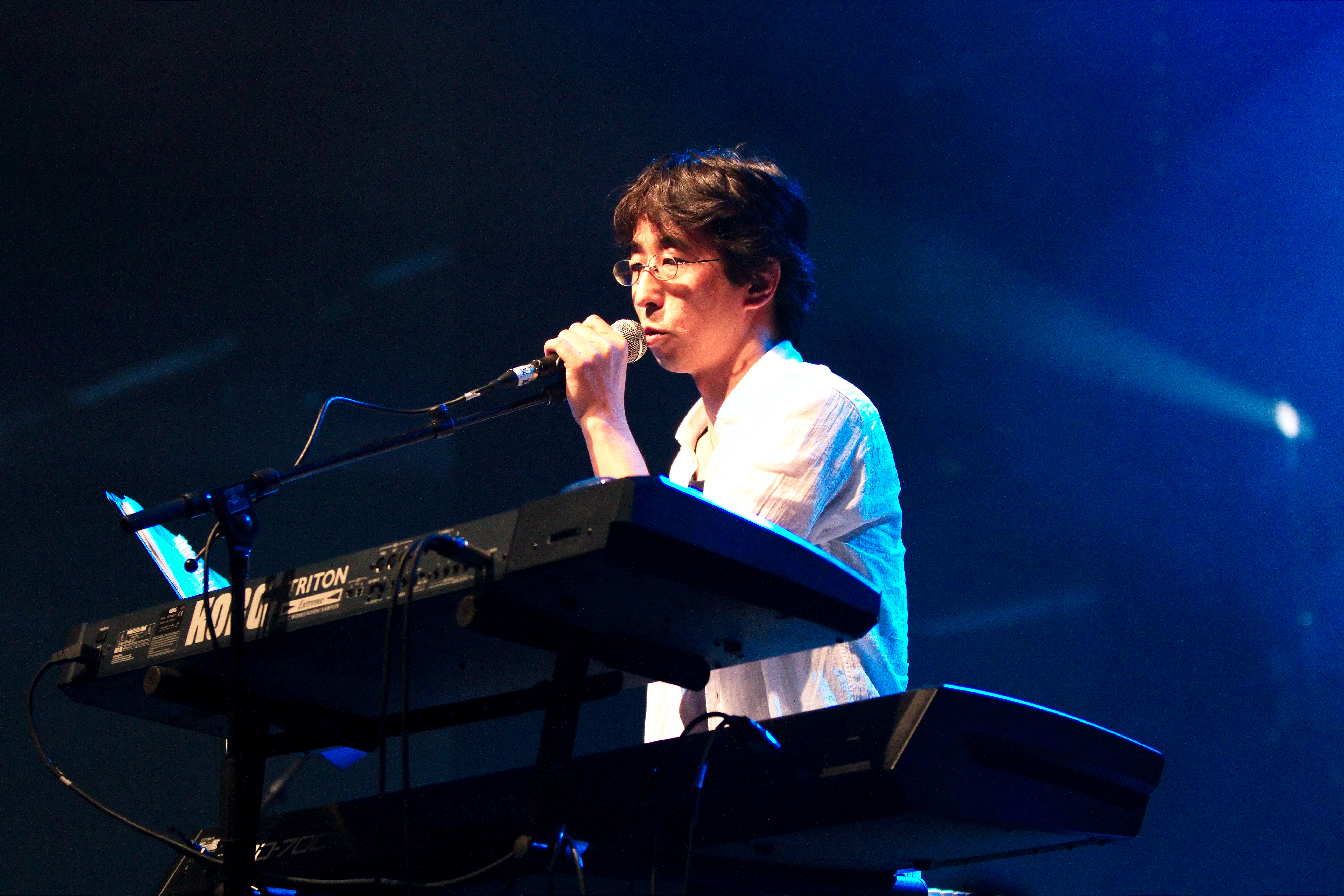 Noriyuki Iwadare (keyboards), Shi On (vocal), Wo-Lya (bass) and Yasufumi Fukuda (guitar) live at Japan Expo 2010 (Paris, France).